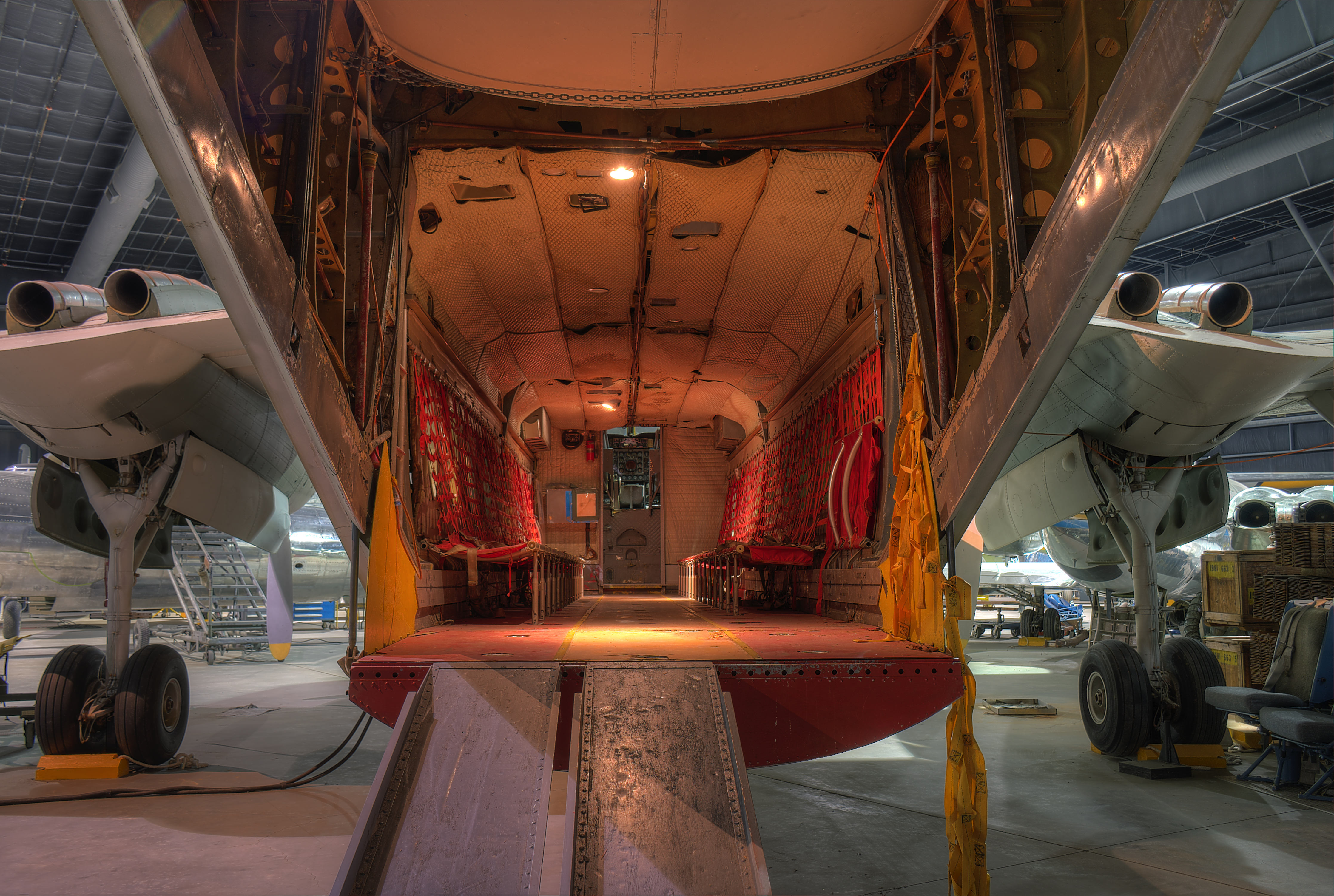 cargo compartment of DeHavilland C-7A Caribou